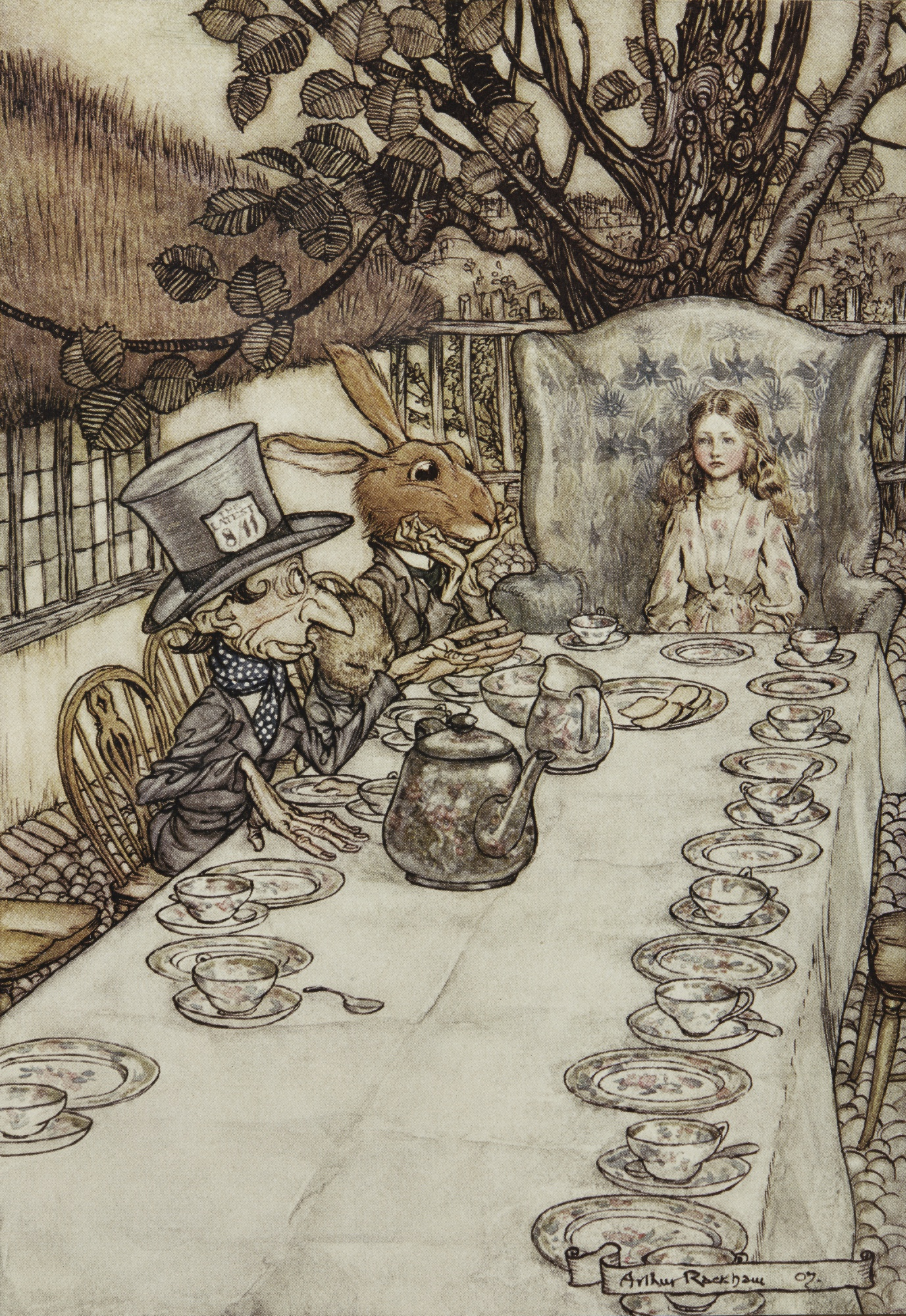 "A Mad Tea Party" (source). From a 1907 edition of Alice's Adventures in Wonderland (link to page).